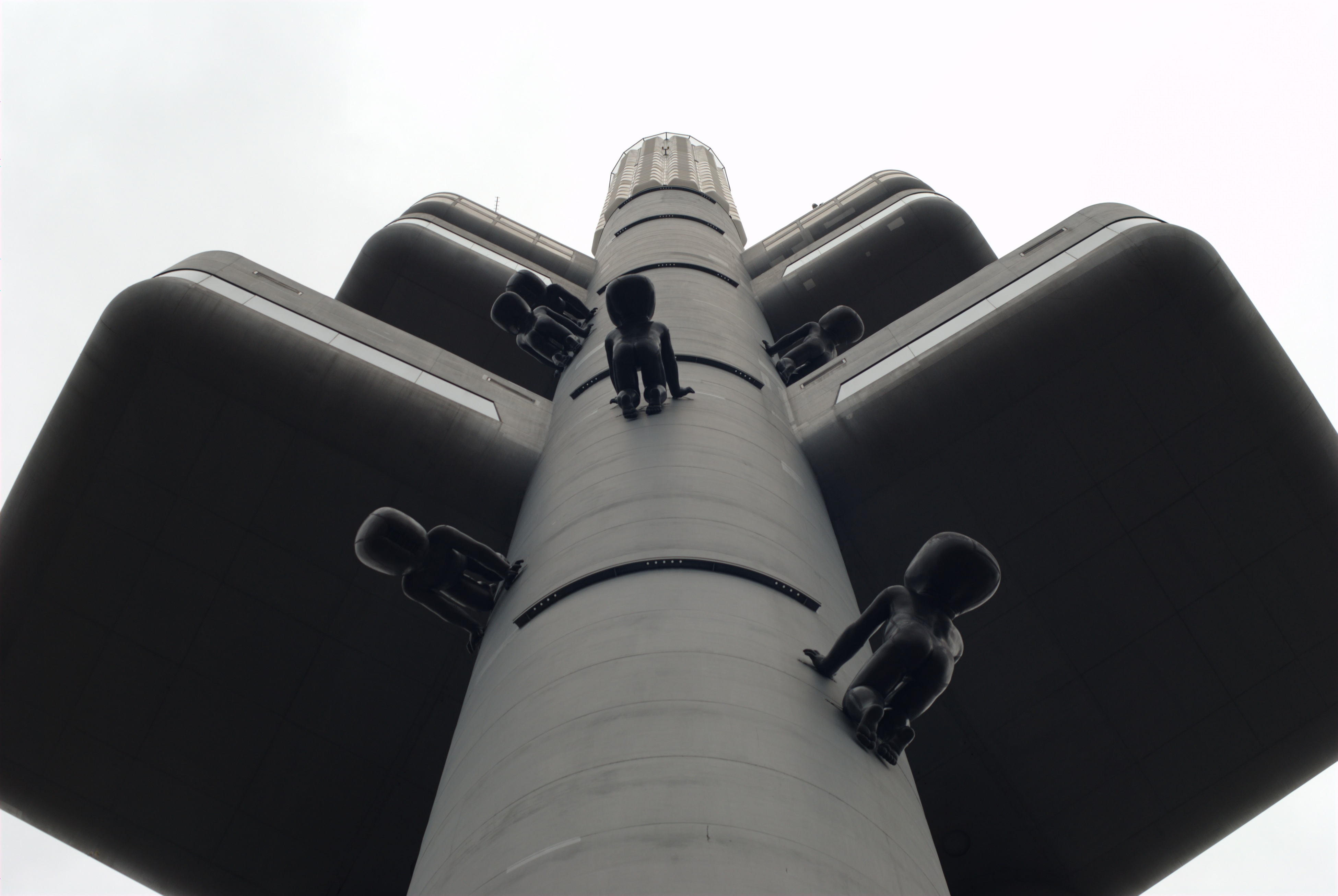 Zizkov TV Tower, Prague